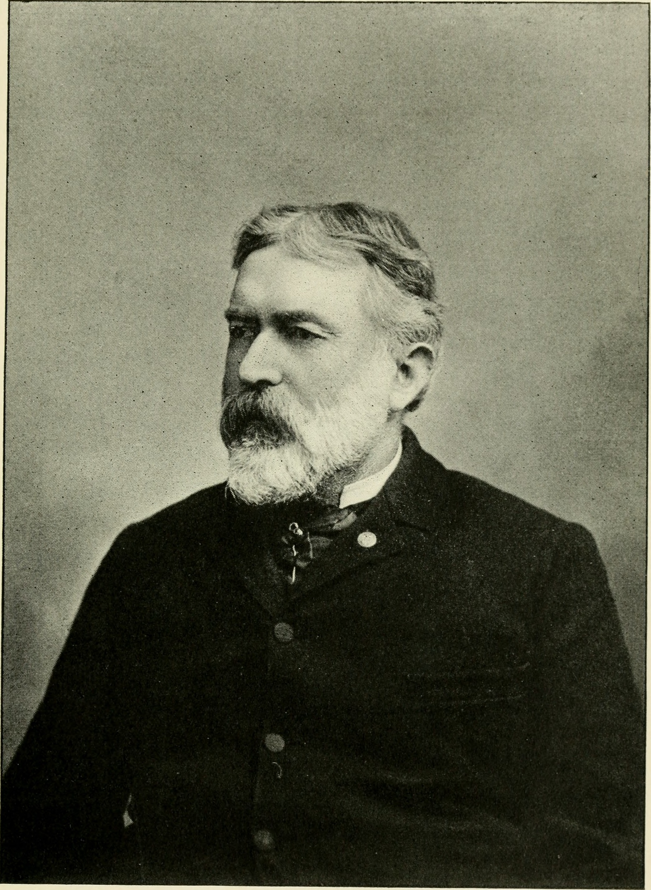 Title: The botanists of Philadelphia and their work Year: 1899 (1890s) Authors: Harshberger, John W. (John William), 1869-1929 Subjects: Botanists -- United States; Botany -- History; Philadelphia (Pa. ) -- Biography Publisher: Philadelphia (Press of T. C. Davis) Text Appearing Before Image: ' Text Appearing After Image: CHARLES McILVAINE.